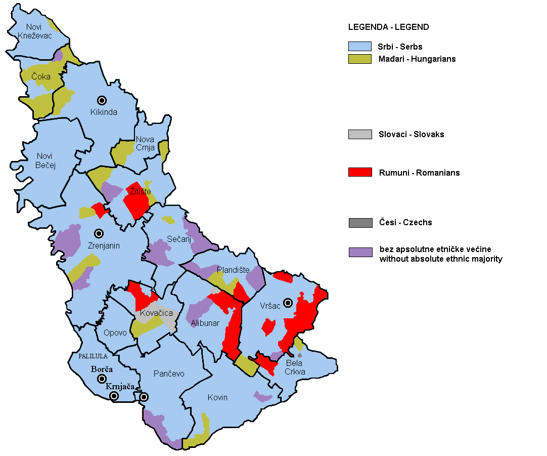 ethnic map of Serbian Banat region